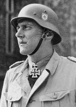 Title: Otto Skorzeny Extra information: SS-Sturmbannführer Otto Skorzeny mit Ritterkreuz des Eisernen Kreuzes und Stahlhelm als Kommandeur der SS-Sondereinheit "Friedenthal" in Friedensthal People in the image: Skorzeny, Otto: SS-Hauptsturmführer, Ritterkreuz (RK), Waffen-SS, Deutschland (GND 118614886) Factual corrections and alternative descriptions are encouraged separately from the original description. Additionally errors can be reported at this page to inform the Bundesarchiv. Original historic description